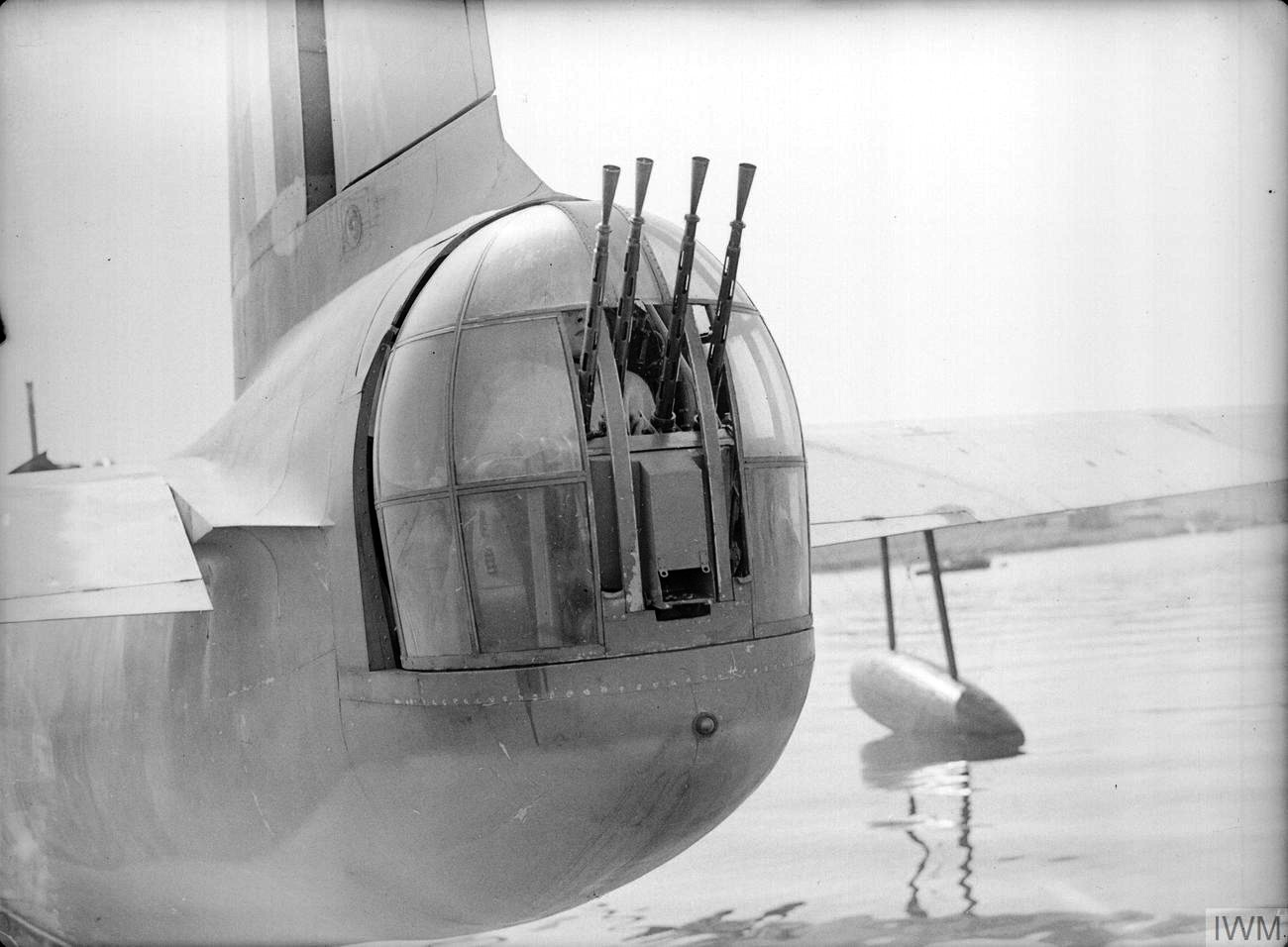 Royal Air Force- 1939-1945- Coastal Command The Frazer-Nash FN13 rear turret of a Sunderland of No 210 Squadron at Oban, August 1940. The Sunderland was the first RAF flying boat to be fitted with power-operated gun turrets.